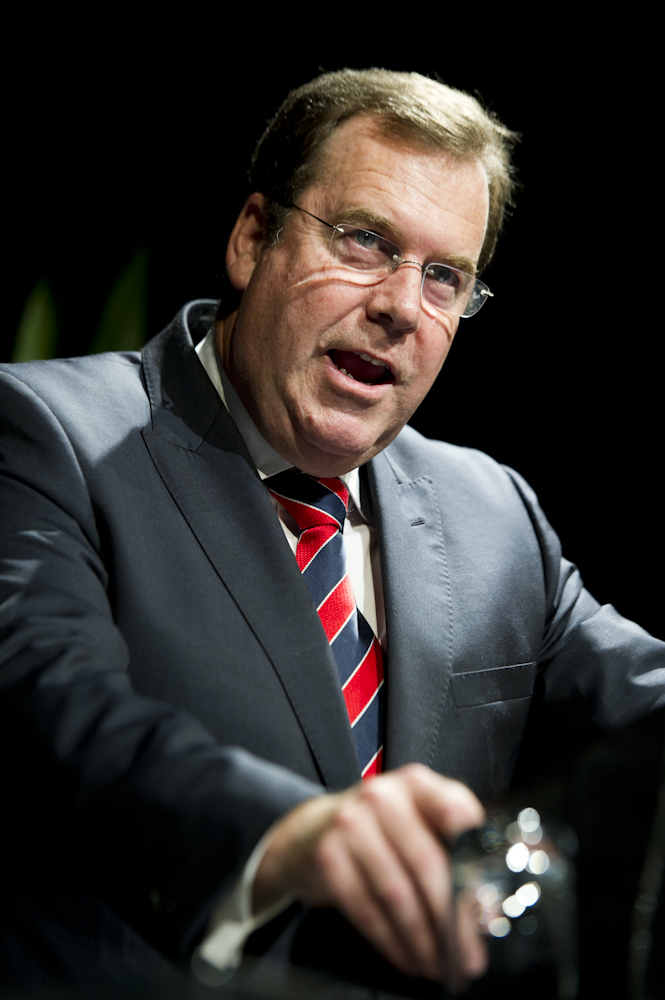 Attorney-General Robert McLelland speaking at the 2011 Human Rights Awards